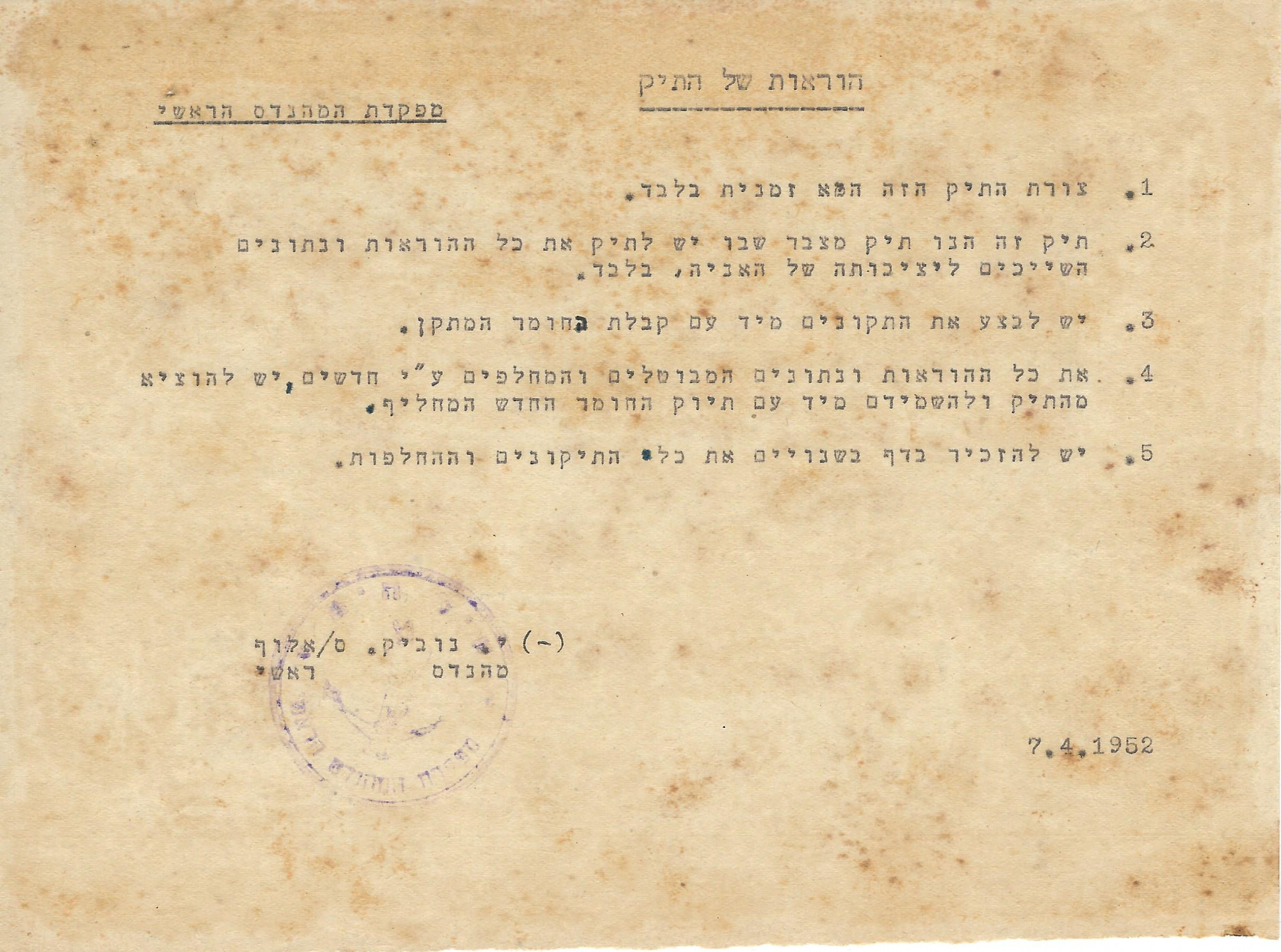 Engineering Branch Notes IDF Navy 1952 of Commander Joe Novik Engineering Branch commander in chief